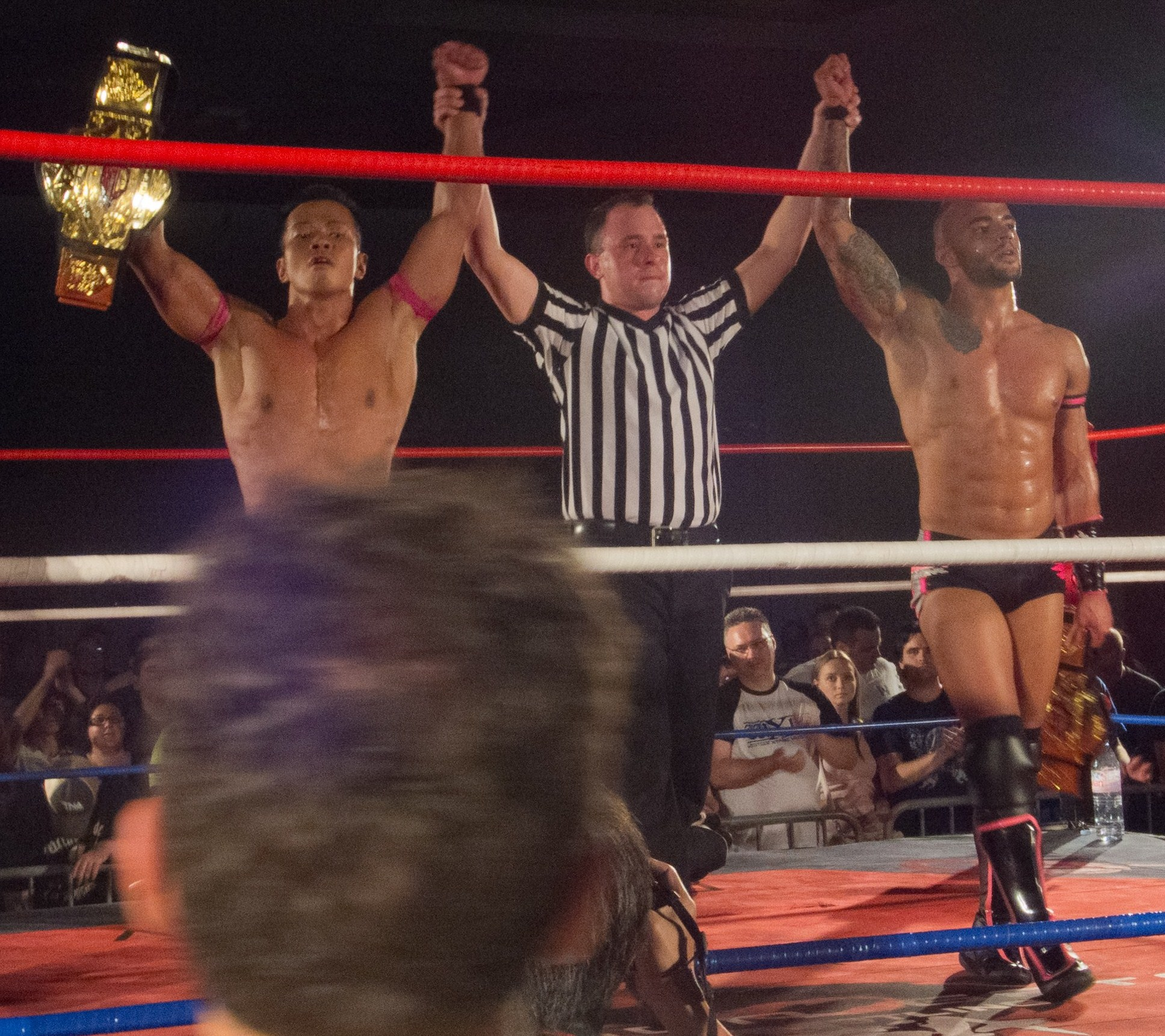 Masato Yoshino and Ricochet win the Open the United Gate titles at the Open the Ultimate Gate event on March 30, 2012 in North Shore, Miami Beach, Florida, United States.